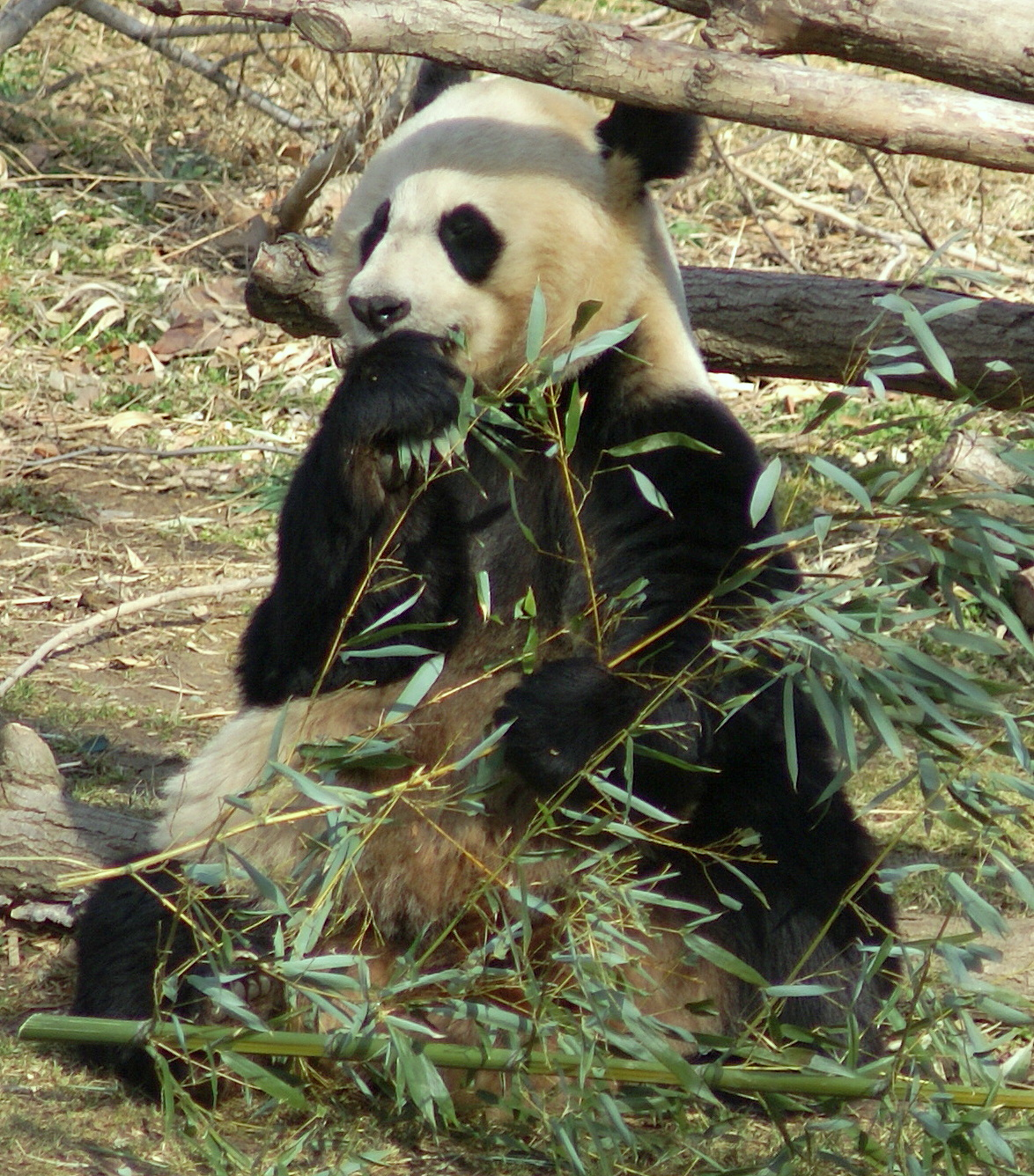 Taken at the National Zoo in Washington, D.C. The giant panda (Ailuropoda melanoleuca, "black-and-white cat-foot"